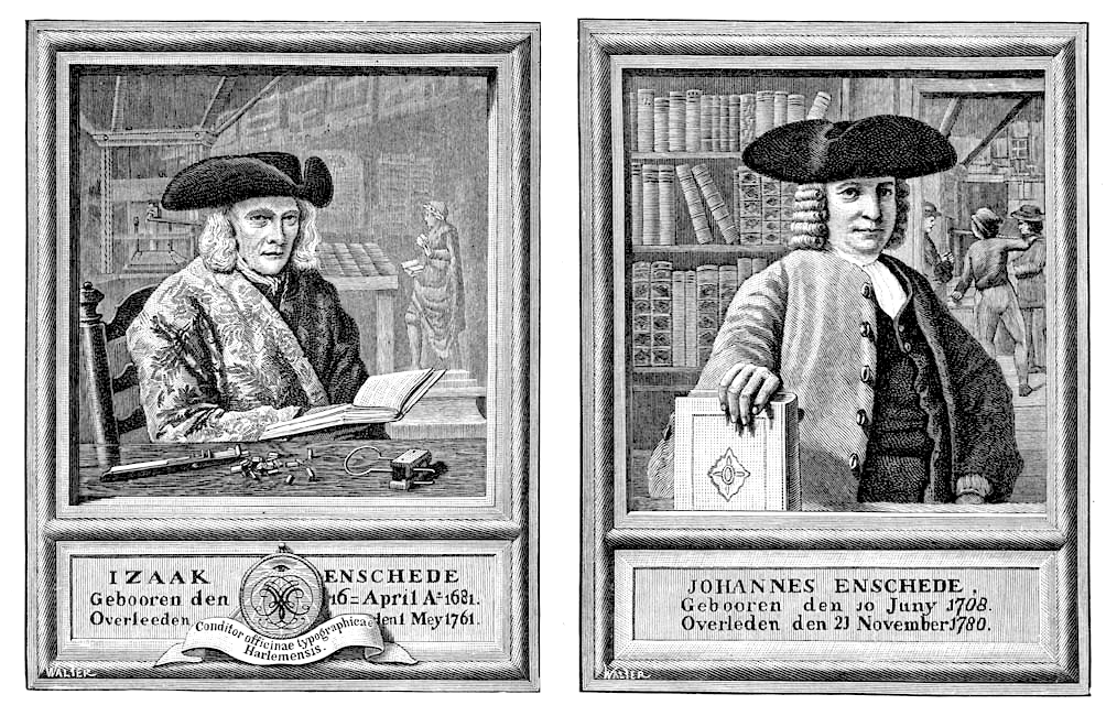 Portrait of Izaak and Johan Enschede, founders of printer/publisher Joh. Enschedé, Haarlem